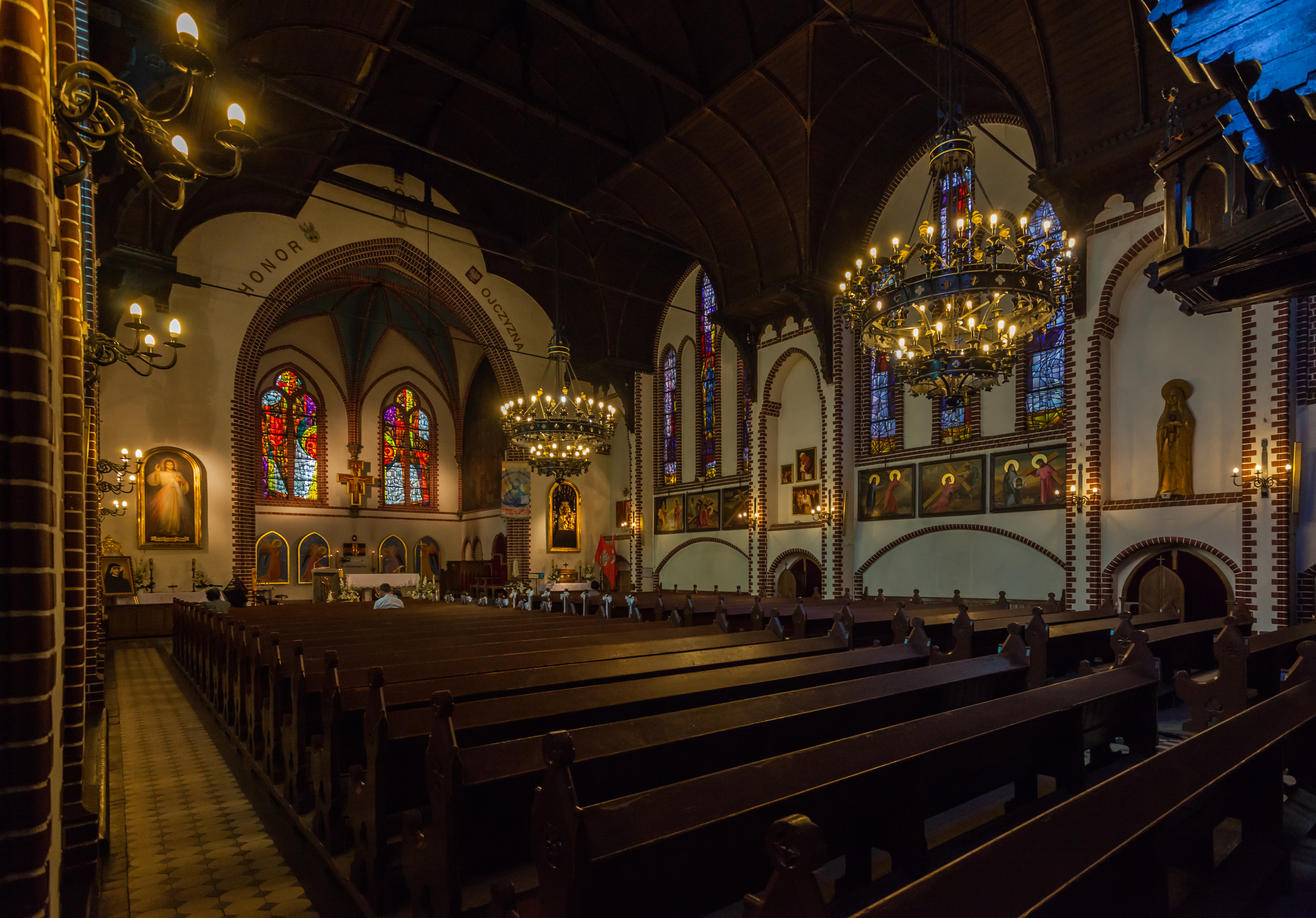 Saint George church, Sopot, Poland